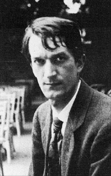 Rembrandt Bugatti (1884–1916). It is presumed this photo was published before 1923 and therefore is ineligible for copyright under US law.